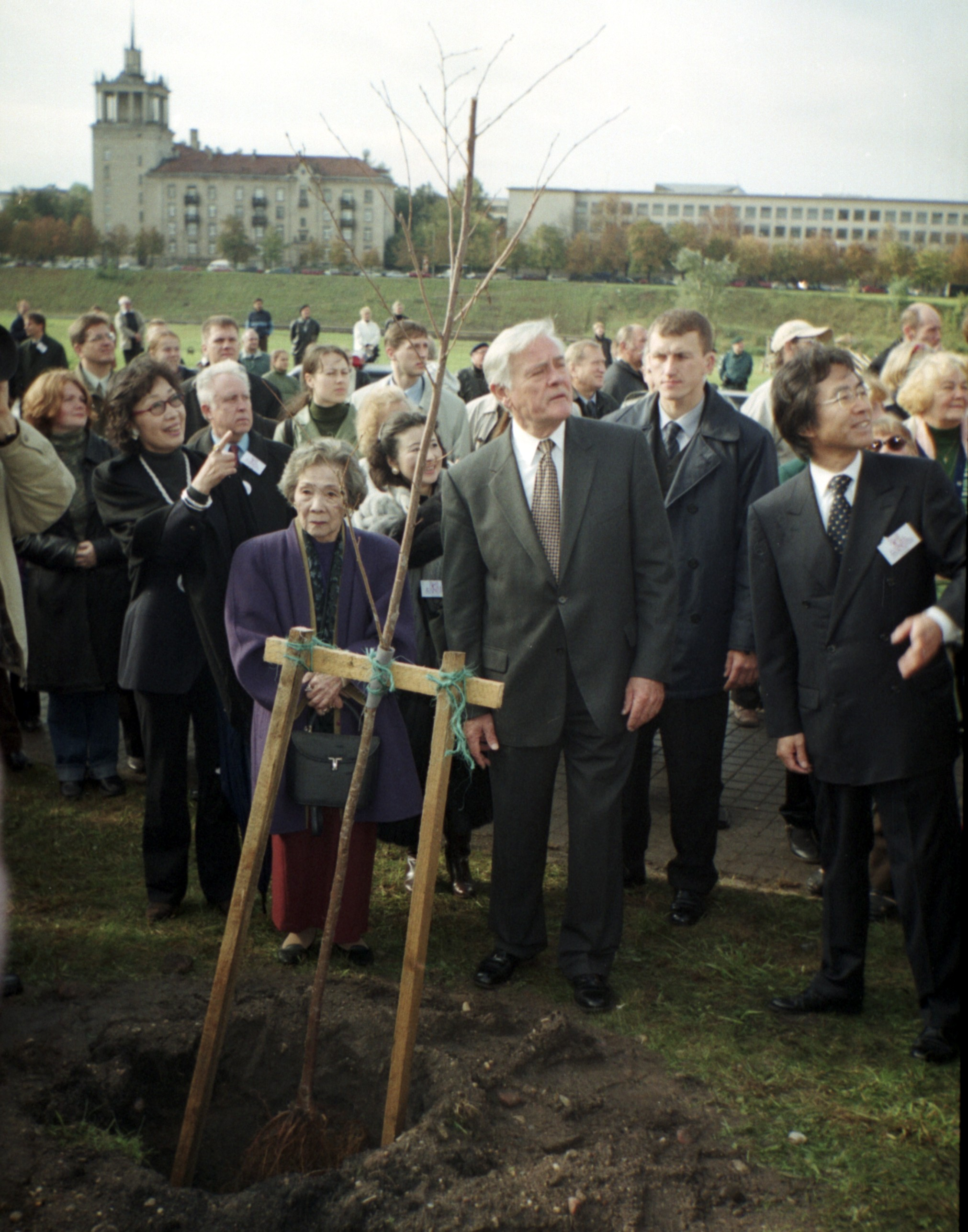 Sakura for memory of Chiune Sugihara in Vilnius, Lithuania. Widow of Sugihara and president of Lithuania Valdas Adamkus